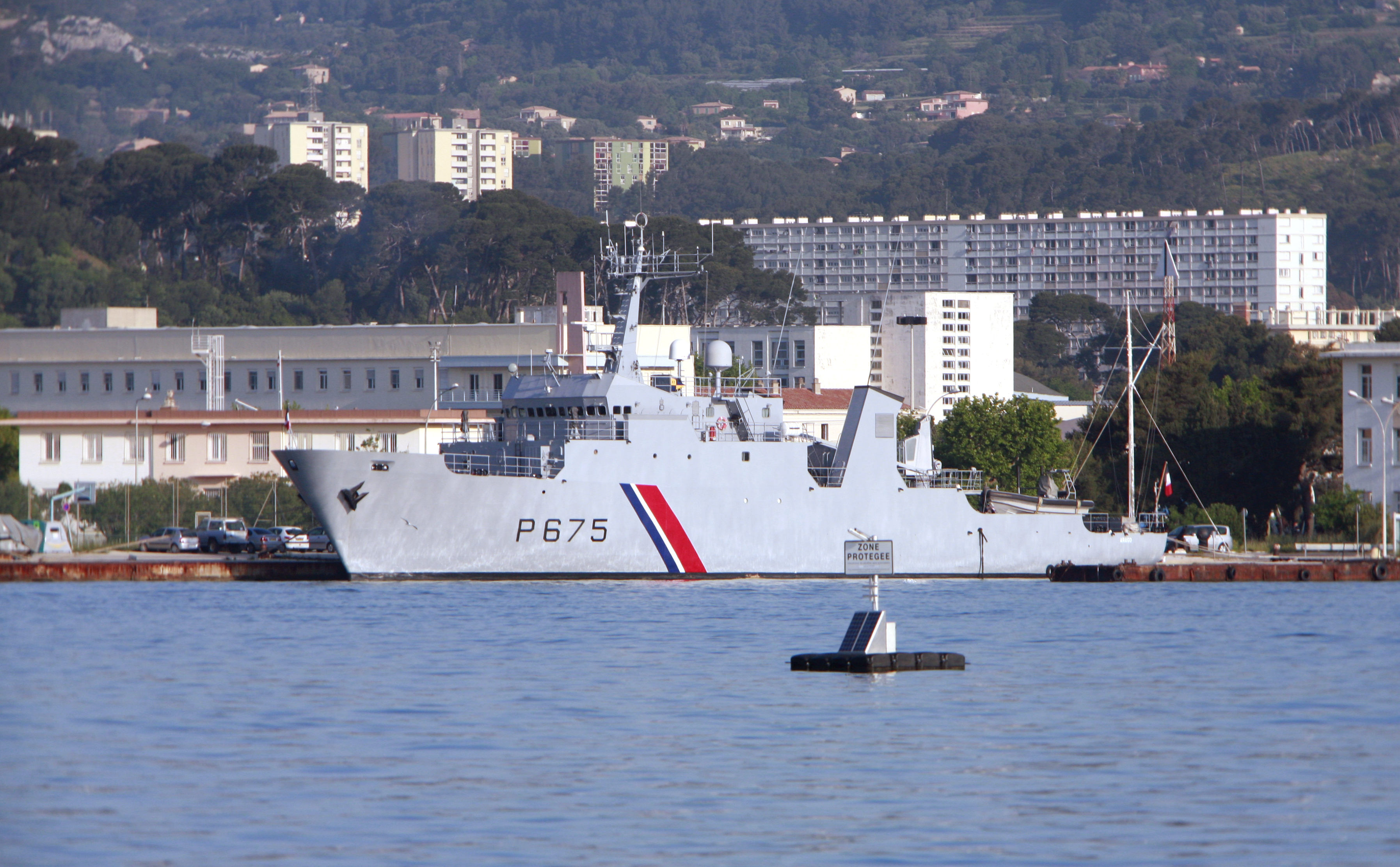 French patrol boat Arago (A795) in Toulon harbour